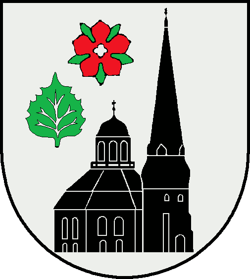 Coat of arms of the municipality Rellingen in Schleswig-Holstein, Germany.